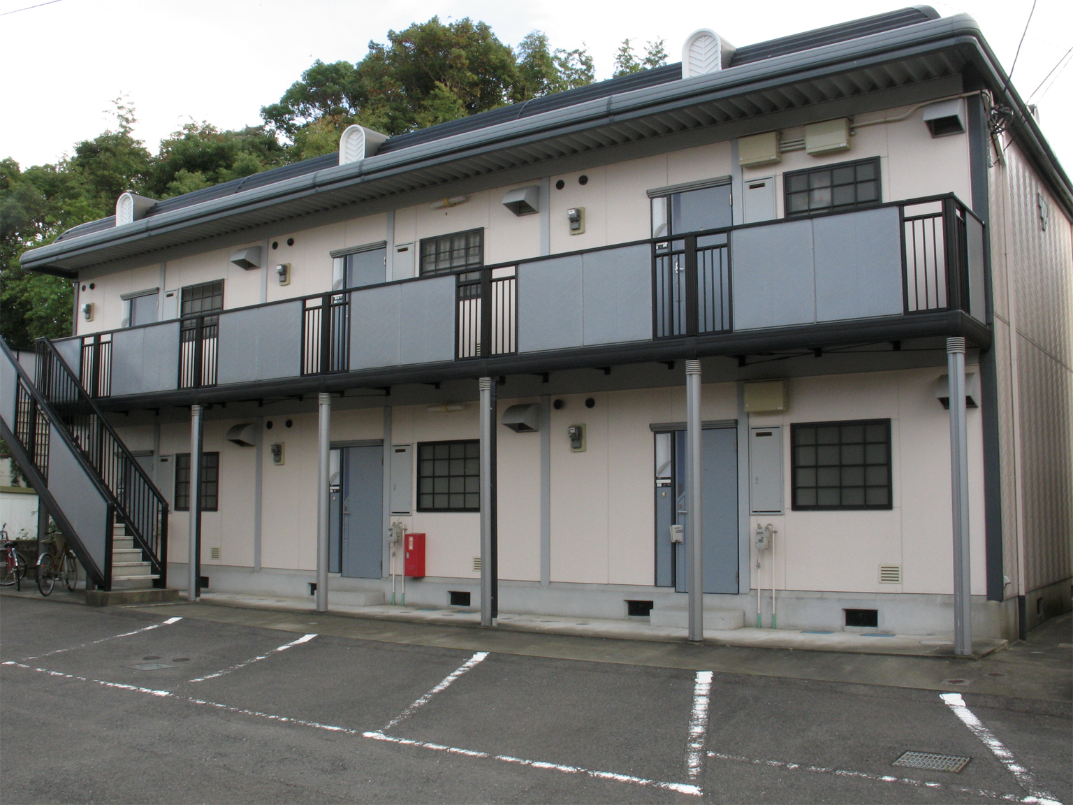 Two-story Japanese apartments, in Karatsu, Saga, Saga prefecture, Japan.